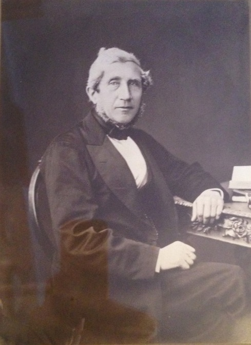 Christopher Blom Paus (1810–1898), merchant and shipowner in Skien, Norway, uncle of Henrik Ibsen